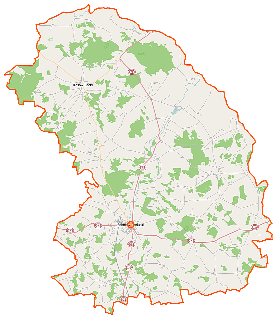 Map of Powiat sokołowski, Poland This map of Powiat sokołowski was created from OpenStreetMap project data, collected by the community. This map may be incomplete, and may contain errors. Don't rely solely on it for navigation. Border coordinates52.709721.9637←↕→22.581052.2820